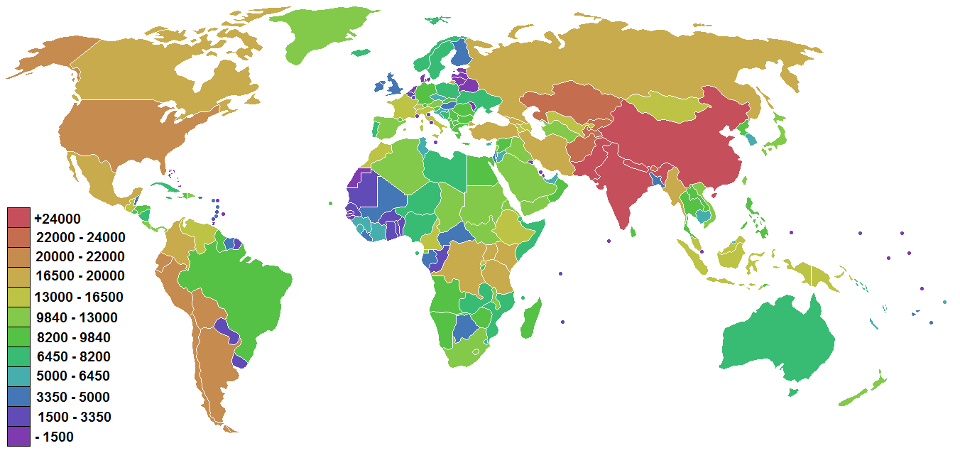 Countries by highest point in metres as listed on List of countries by highest point